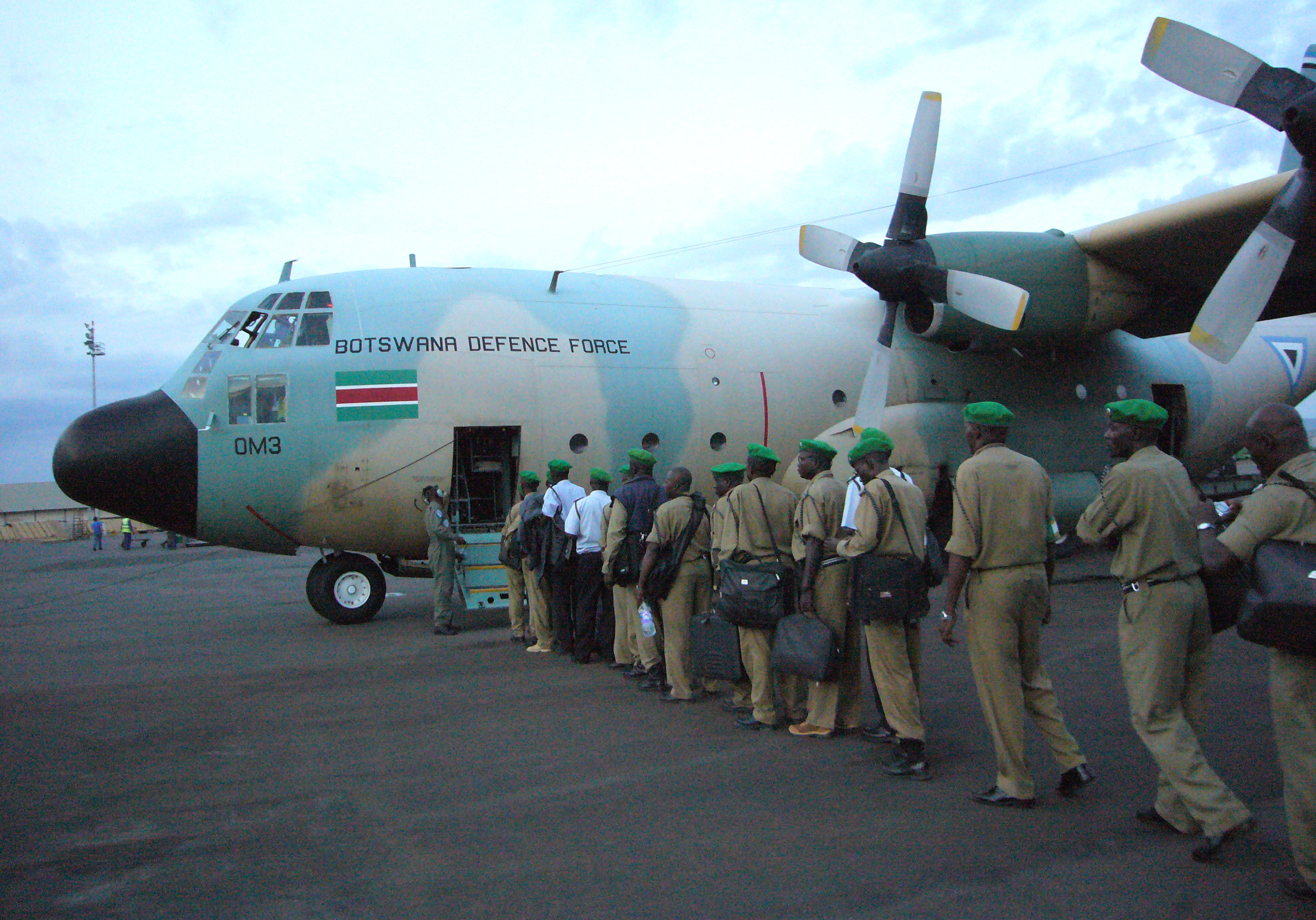 Ugandan civil police prepare to board a Botswana C-130 at the airport in Kigali, Rwanda. They were returning home after a one-year deployment to the Darfur region where they were part of the African Union peacekeeping mission